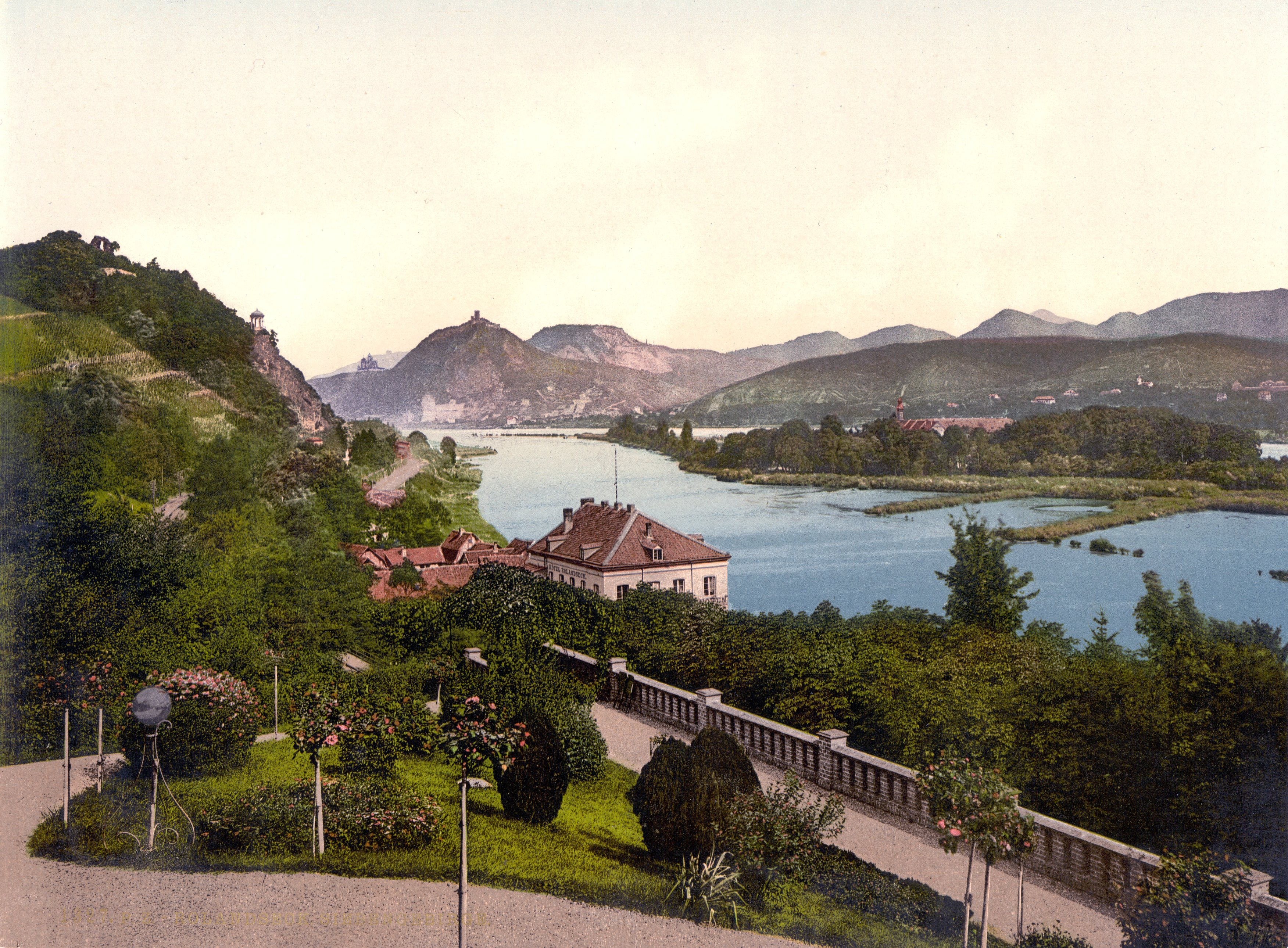 Rolandseck, Nonnenwerth, Seven Mountains